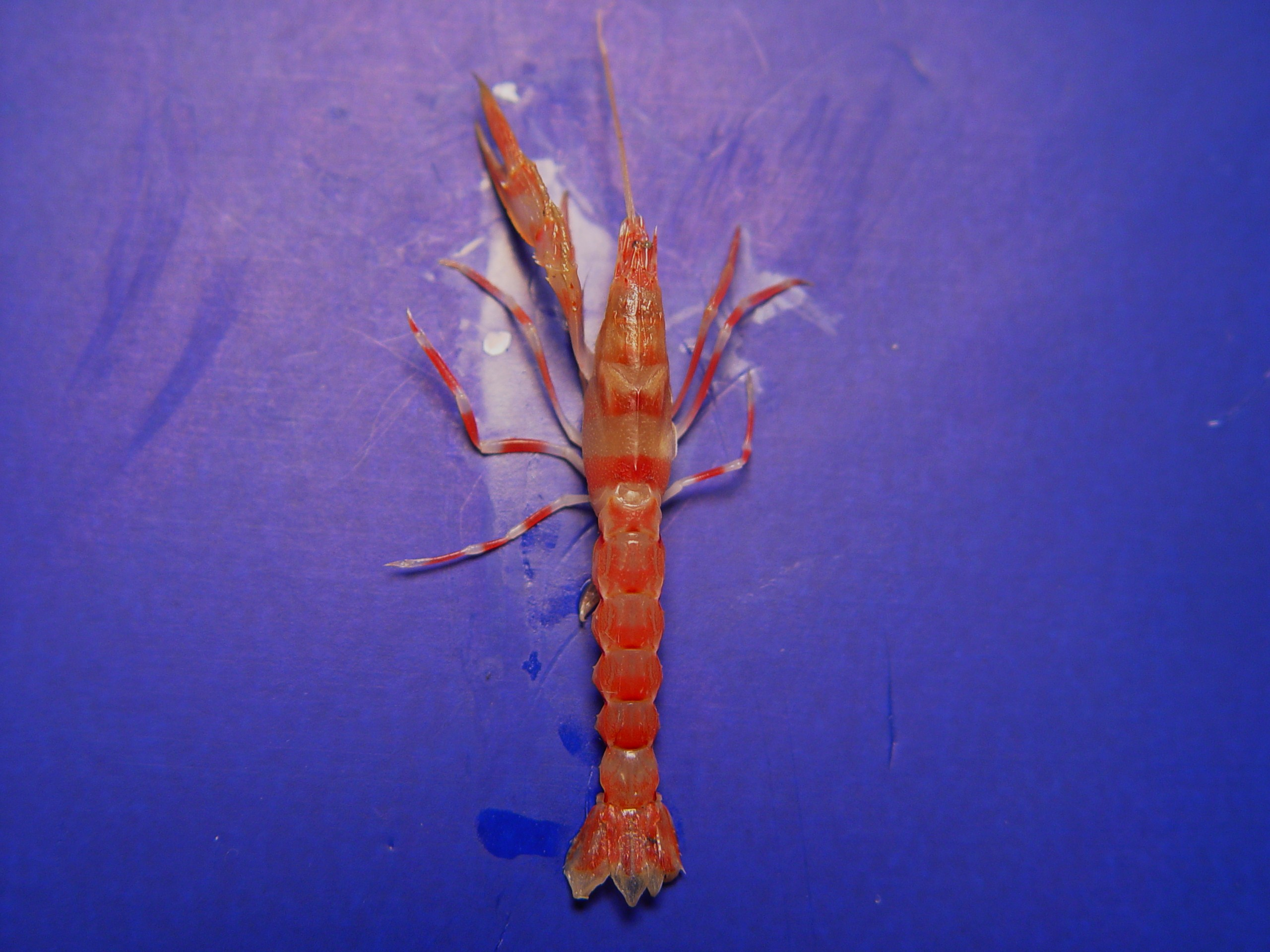 Acanthaxius hirsutimanus from the Gulf of Mexico